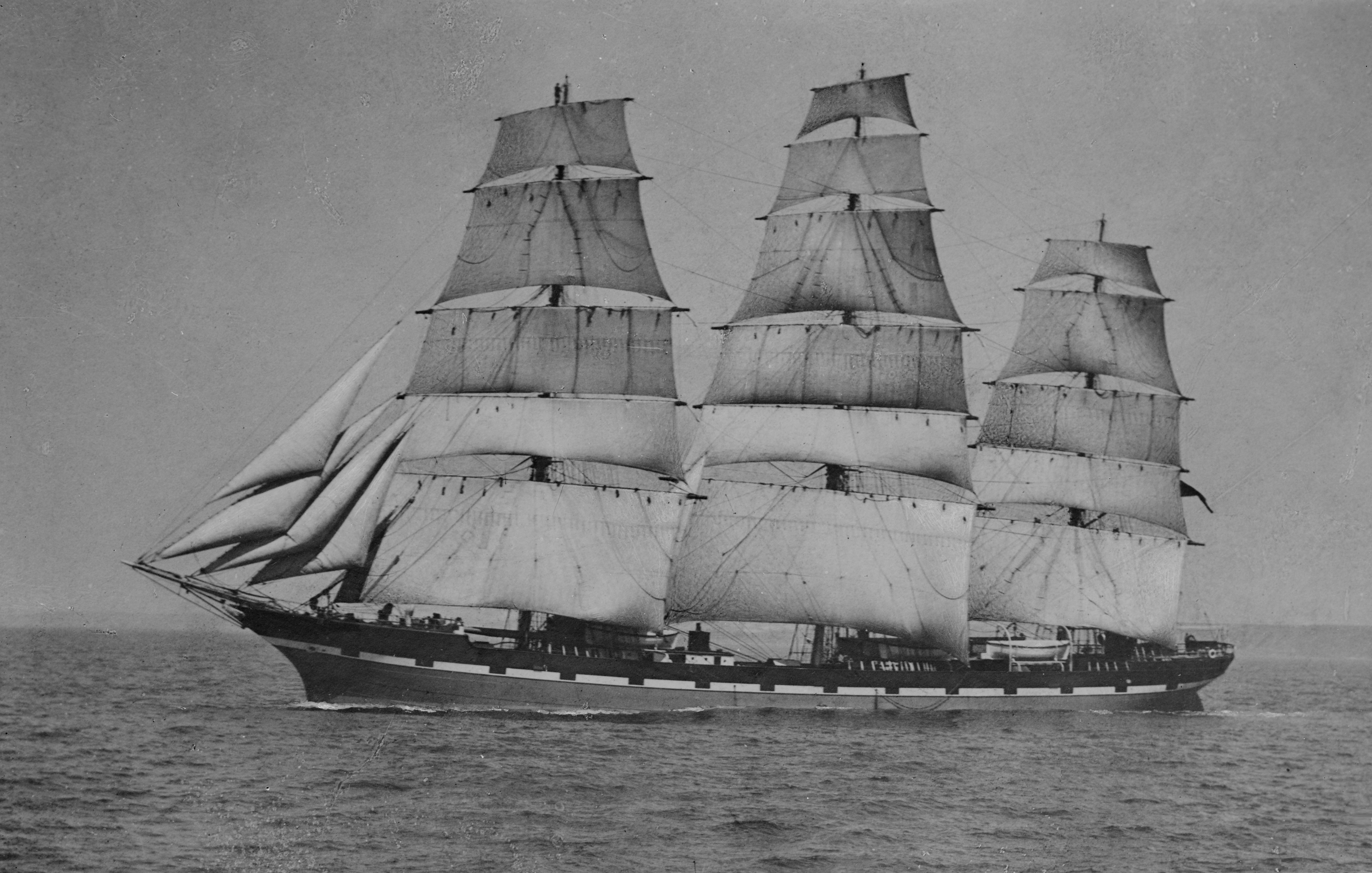 The full rigged ship Mersey in full sails.